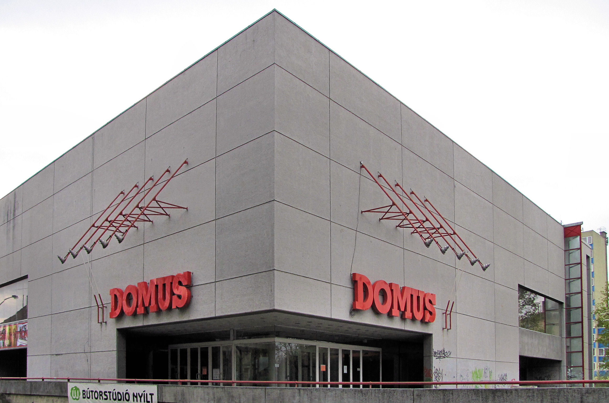 Domus Furniture Store, Székesfehérvár. Built in 1971-75 by Antal Lázár and Péter Reimholz.